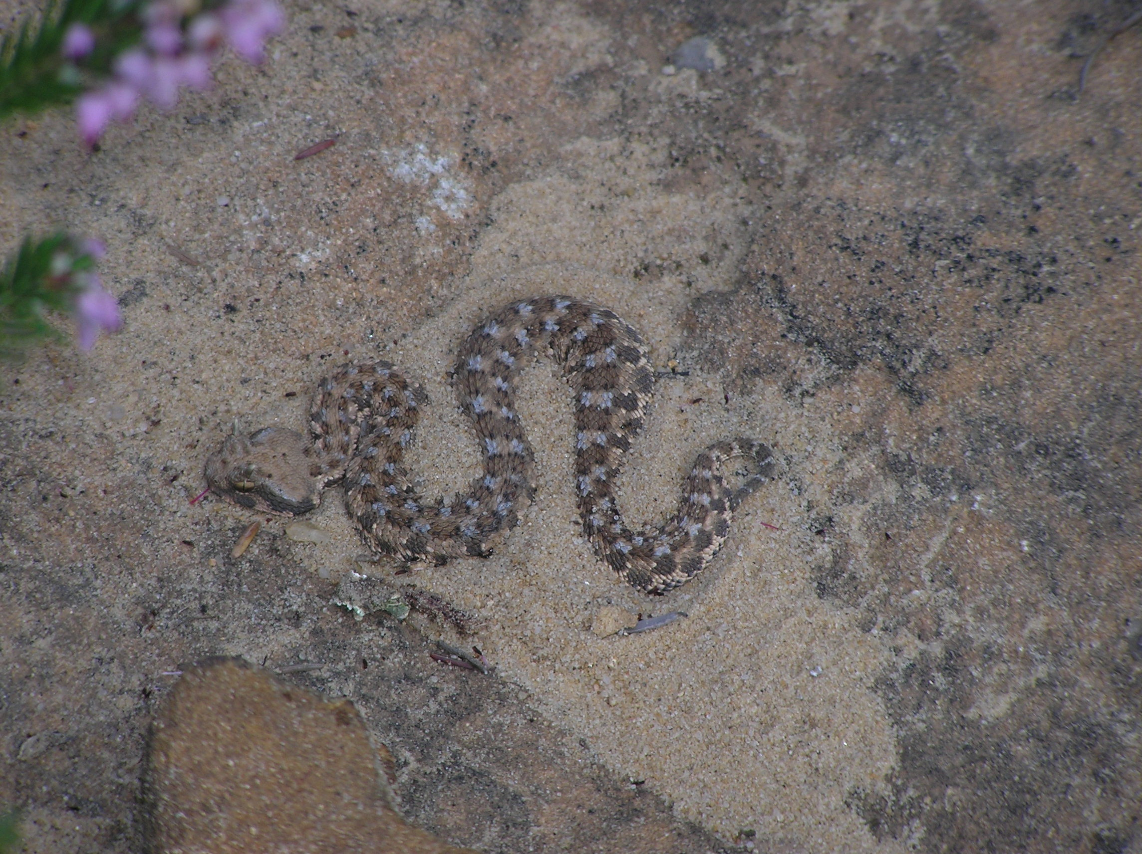 A collection of contemporary photos, dedicated to the people of Tunisia I dedicate this collection of photographs to the people of Tunisia, where I had the great privilege to live, work , explore and photograph between 2002 and 2006. Apart from the natural beauty and climate, what remains deepest in my memory is the warmth and friendship of the people and a national pride driven by the heartbeat of culture and civilisation. I hope that this selection of photos conveys some of that. The importance of Tunisia’s growth as a nation post World War II, and the example it set in gender equality and education are second to none. Tunisia was prepared to challenge and change; it is a beacon to all seeking equality, justice and peace. Nicholas Gosse, 2015